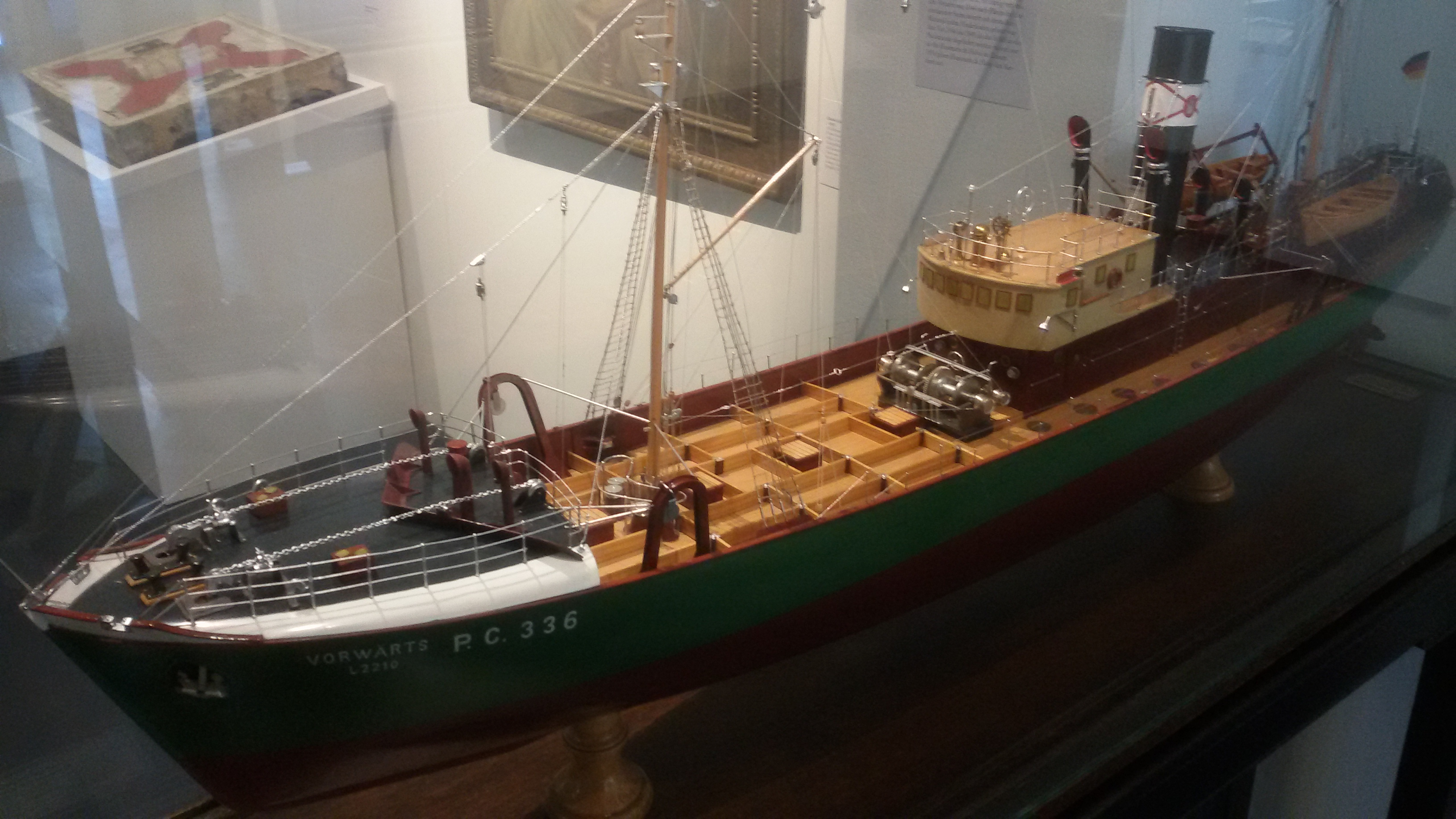 German Trawler Vorwärts (PC 336)